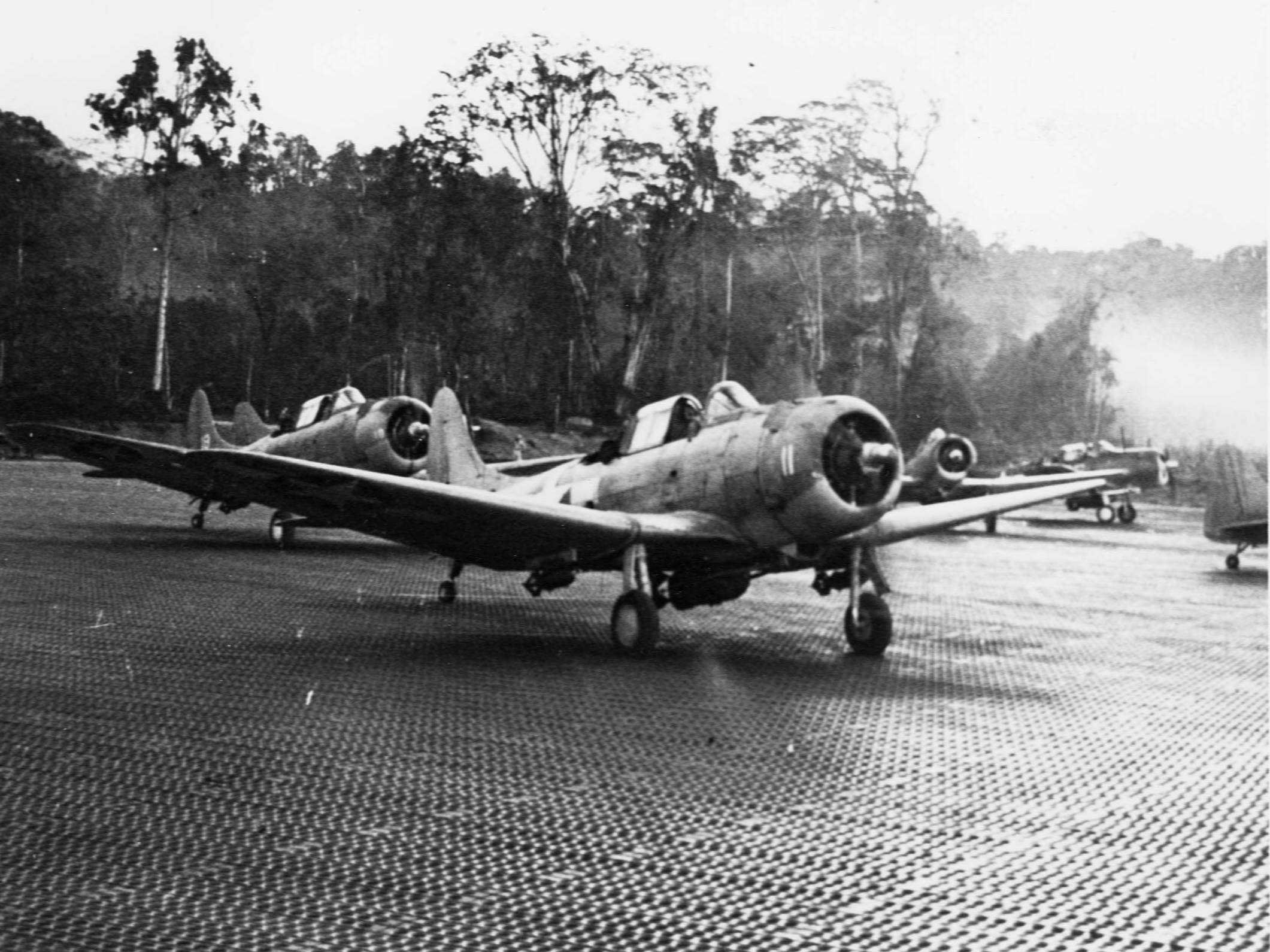 U.S. Navy Douglas SBD-5 Dauntless dive bombers assigned to Composite Squadron 40 (VC-40) pictured at Piva Uncle Airstrip, Torokina prior to taking off on strike against Talili Bay, Rabaul, on 6 April 1944. The strike group that day consisted of 54 SBDs and 36 Grumman TBF Avengers with launch beginning at 1000 and the attack commencing at 1200.